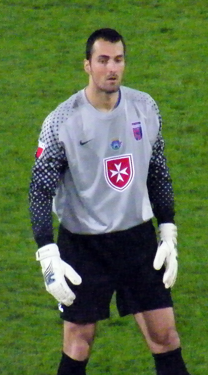 Mladen Božović football player